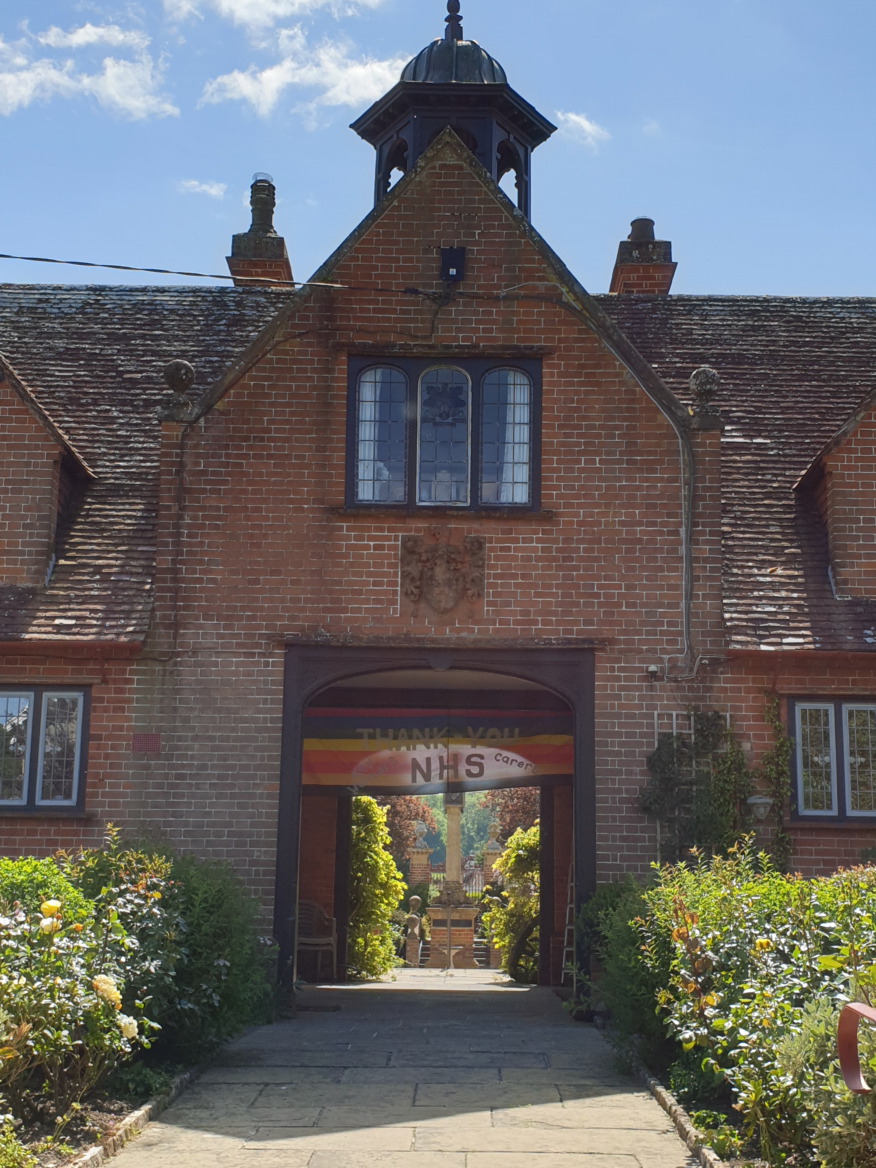 Sidney Hill Cottage Homes, Front Street, Churchill. Wesleyan Almshouses. View through central archway and displaying the coat of arms of Sidney HIll